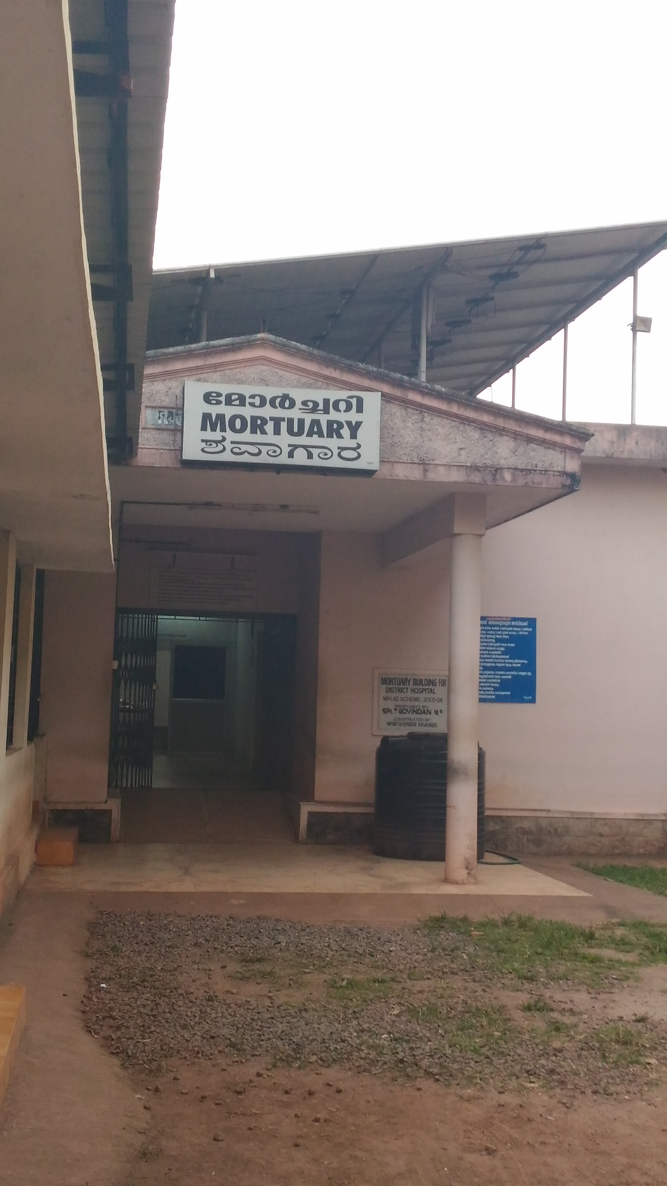 Mortuary building_Govt Hospital Kanhangad